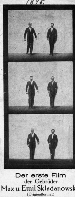 The first film of the brothers Max Skladanowsky and Emil Skladanowsky.